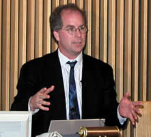 Government Photograph of Brewster Kahle speaking.